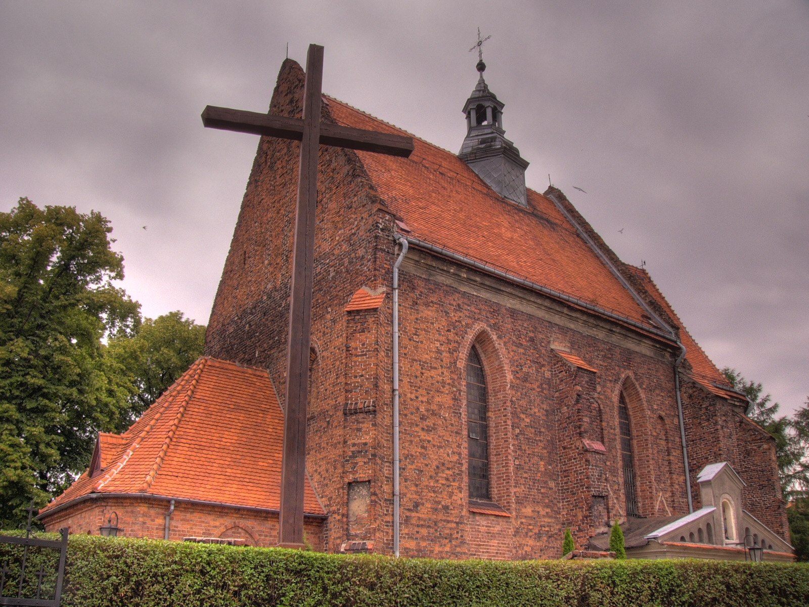 14th century curch in Ostrzeszów